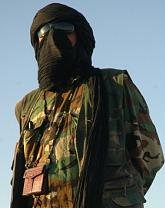 A Nigerien Tuareg rebel fighter, face covered, in northern Niger, from the Niger Movement for Justice. Photo by Phuong Tran, Voice of America reporter in Dakar 08 February 2008